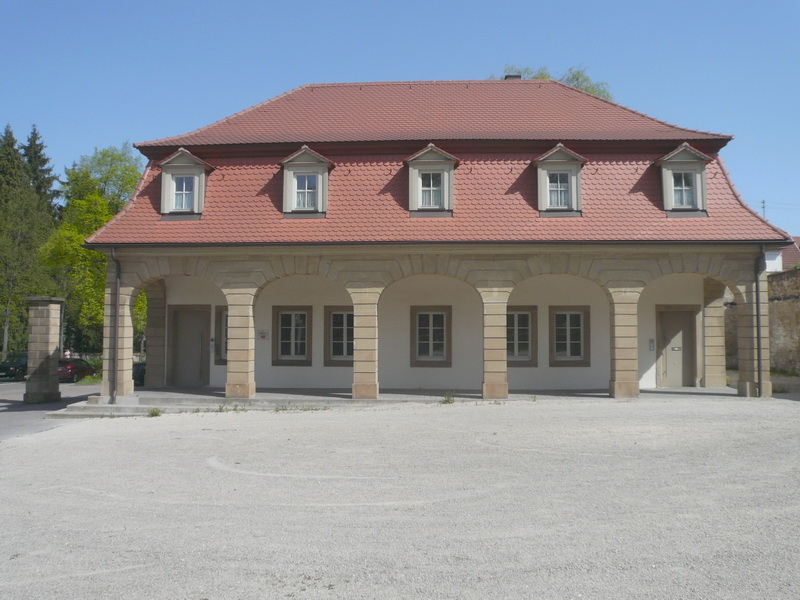 Schorndorf gatehouse, Ludwigsburg